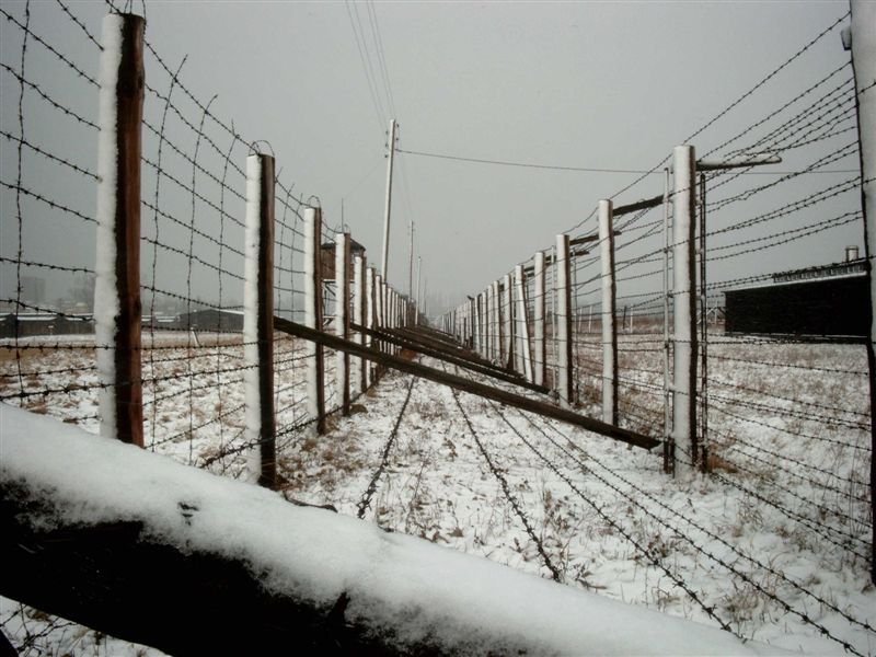 Majdanek, Poland